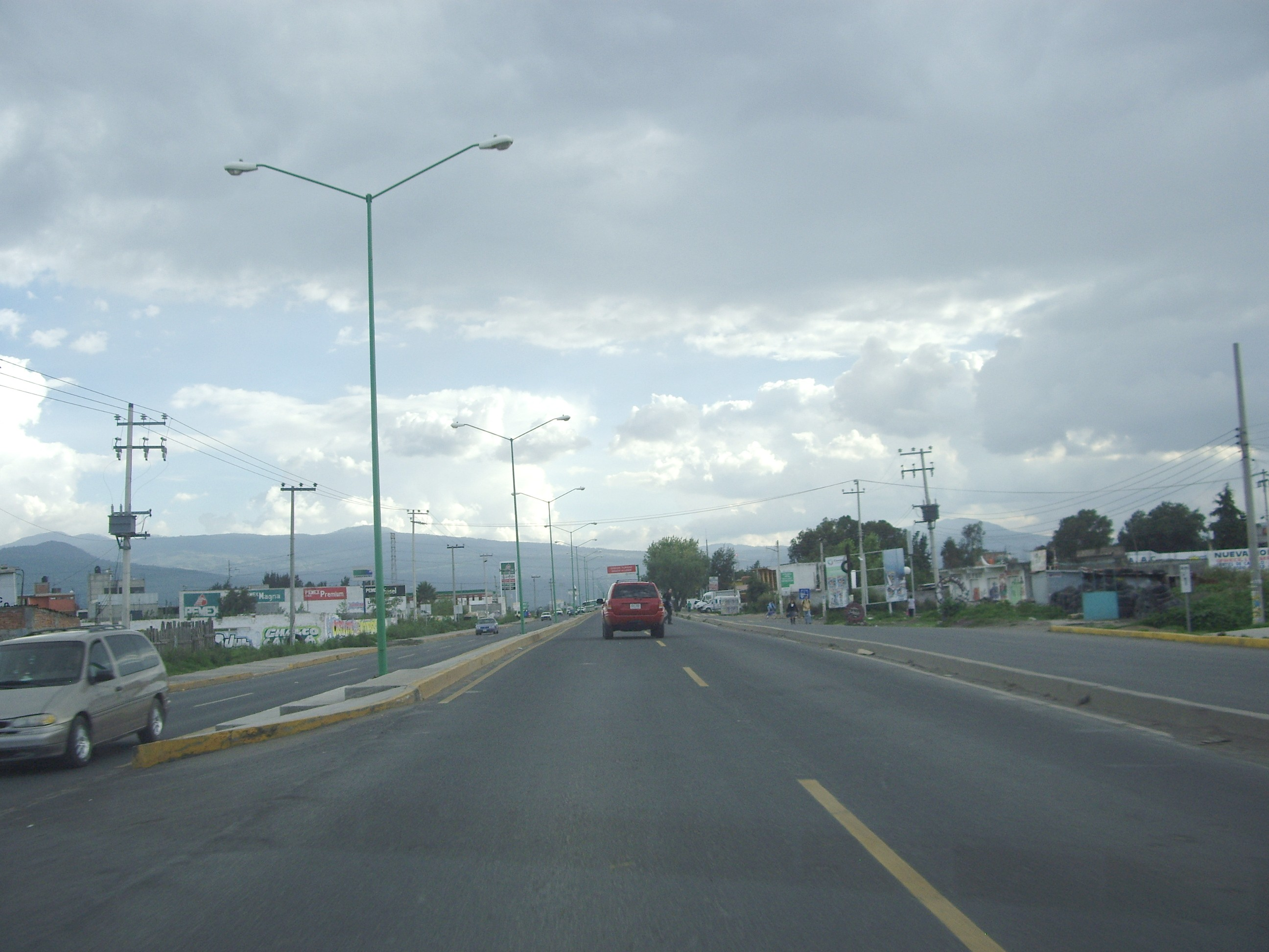 Cloudy panorama over the Chalco-Tláhuac road, completed in 2007. This is one of the two roads connecting Chalco with Tláhuac, the other being the Chalco-Míxquic road.